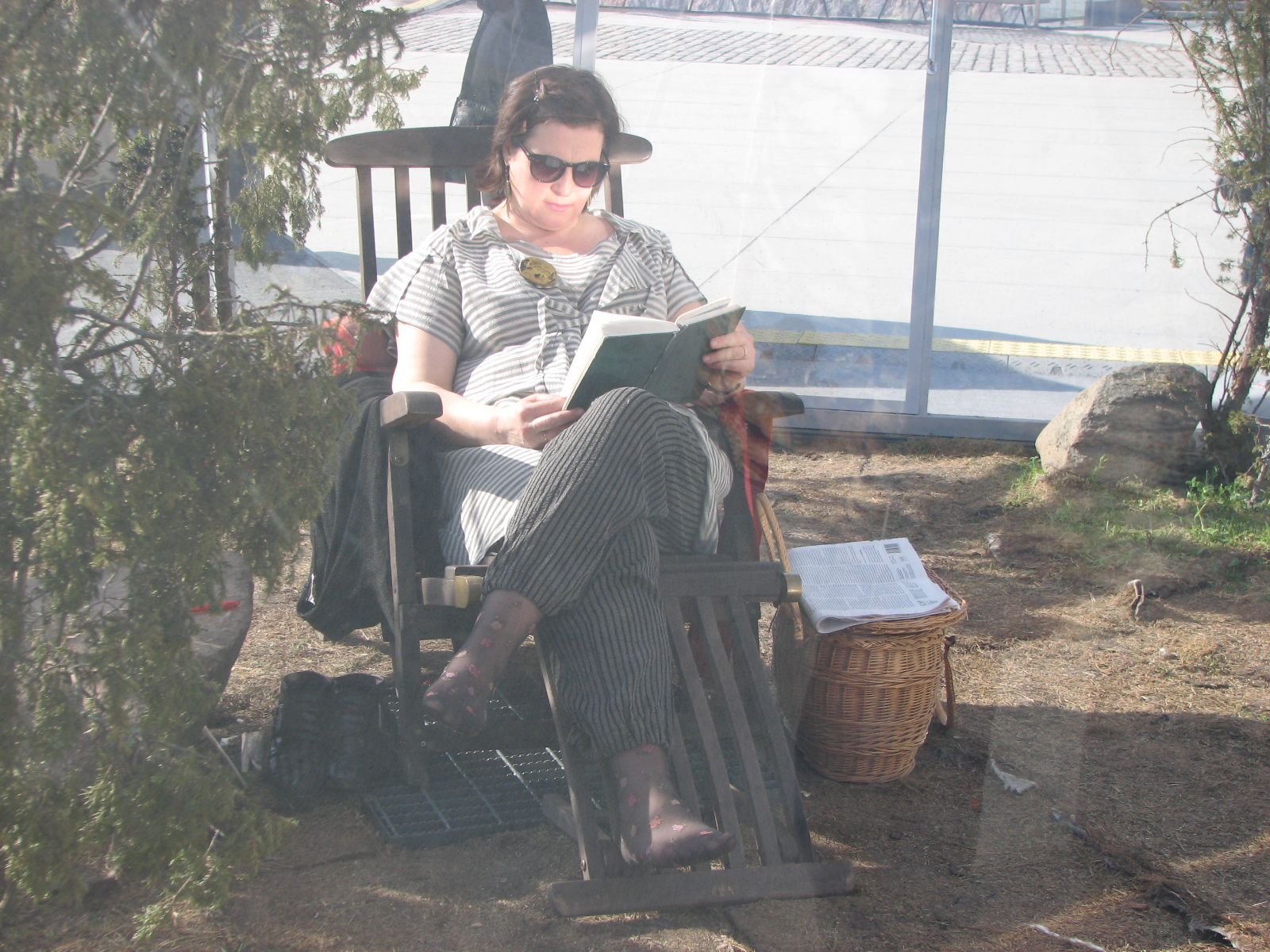 Anne Reemann is Estonian actor.